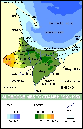 Free City of Gdansk/Wolne Miasto Gdansk, slovak version